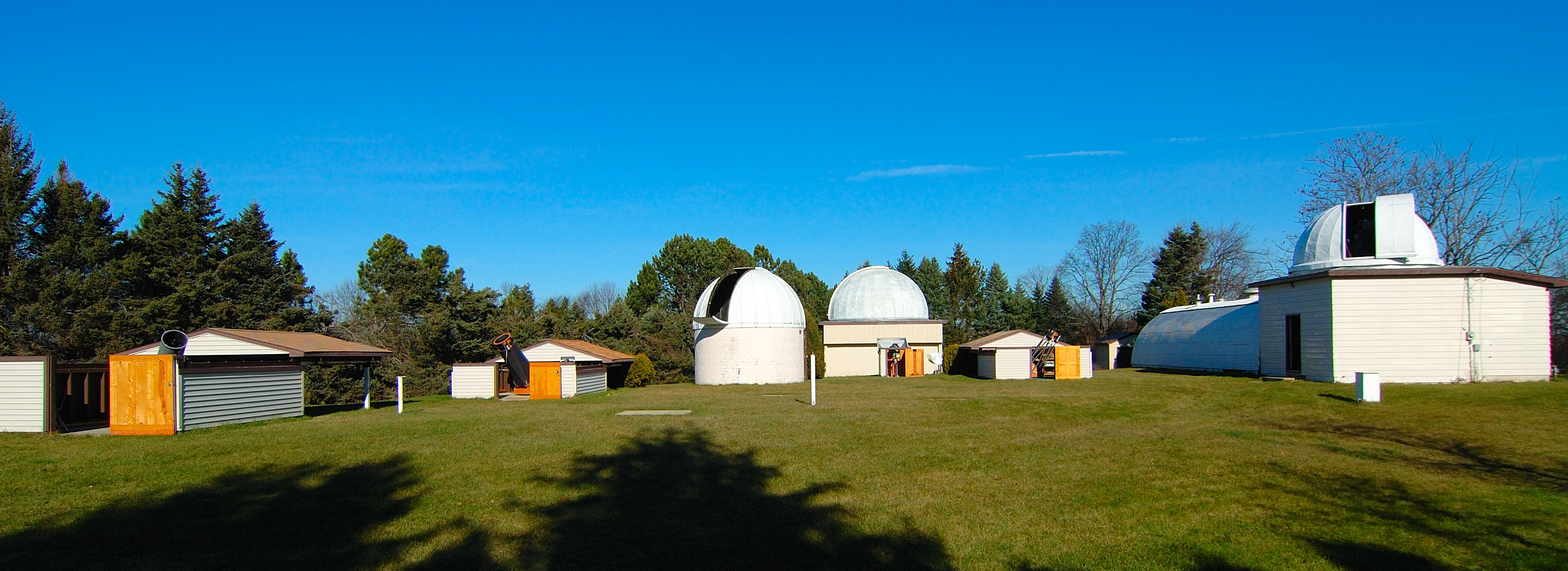 The Milwaukee Astronomical Society Observatory grounds taken on November 19, 2013.